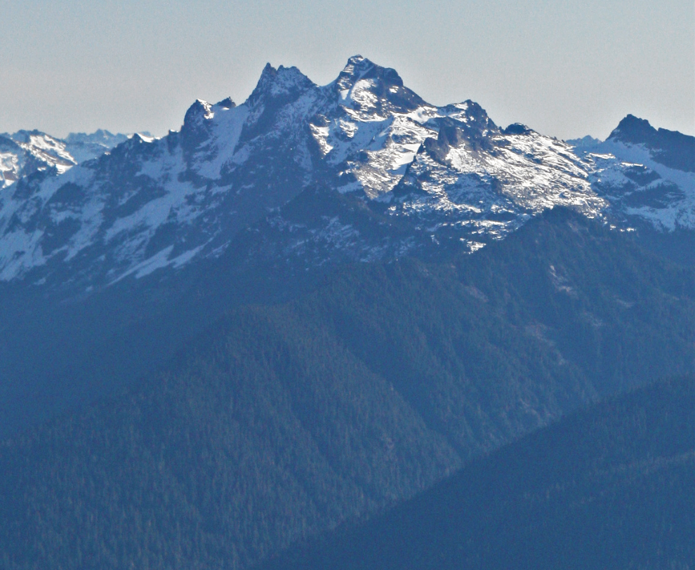 Mount Chaval (left skyline); Illabot Creek Valley (below left); Buck Mountain (right skyline) Viewpoint location: Sauk Mountain Trail #613, Mount Baker-Snoqualmie National Forest Viewpoint elevation: 1682 meter (5518 ft) View direction: 130° Location source: Garmin GPSmap 60CSx Location Datum: WGS84